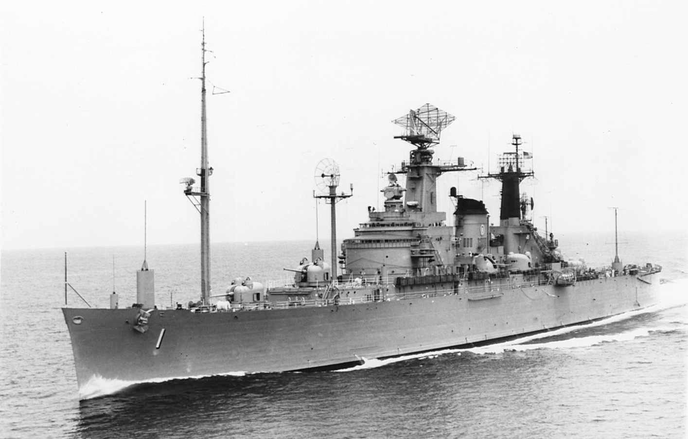 The U.S. Navy command ship USS Northampton (CLC-1) underway, circa 1959. She carries a variety of radars (front to back): SPS-10, a modified SK-2, SPS-2, SPS-29, and SPS-8A.